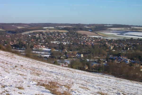 The Goring Gap, viewed from Lardon Chase on the Berkshire Downs, on a snowy January Day. In the valley can be seen the River Thames and the twin villages of Streatley (in Berkshire) and Goring-On-Thames (in Oxfordshire). For more information see the Wikipedia articles Goring Gap and Lardon Chase, the Holies and Lough Down.